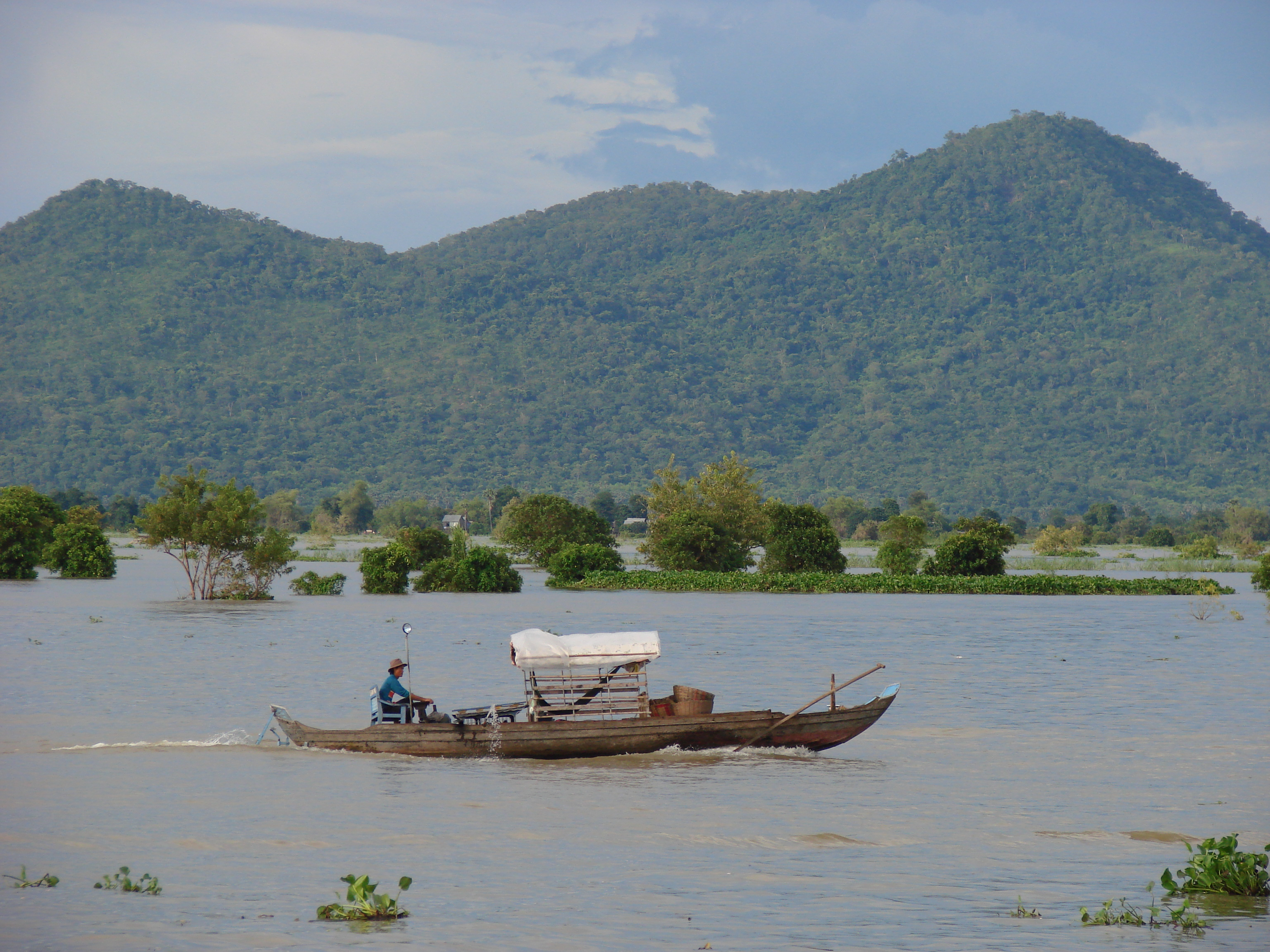 Kong Rei Mountain by Sovithya